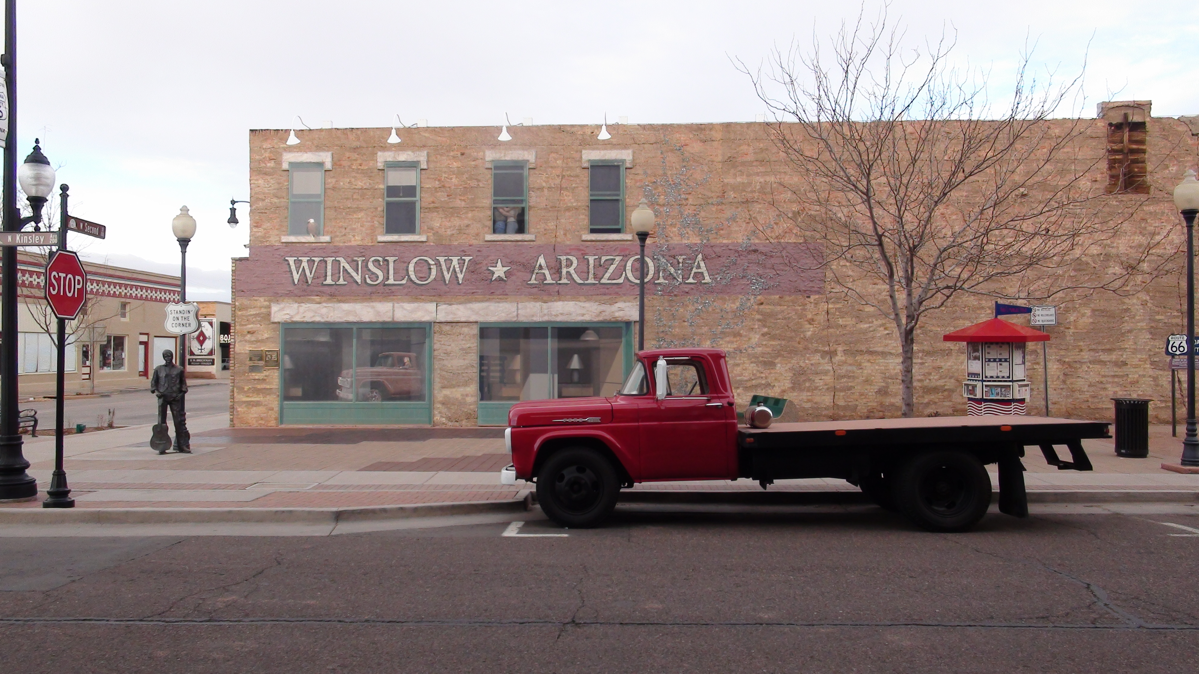 Picture of Standin' on the Corner park in Winslow, AZ